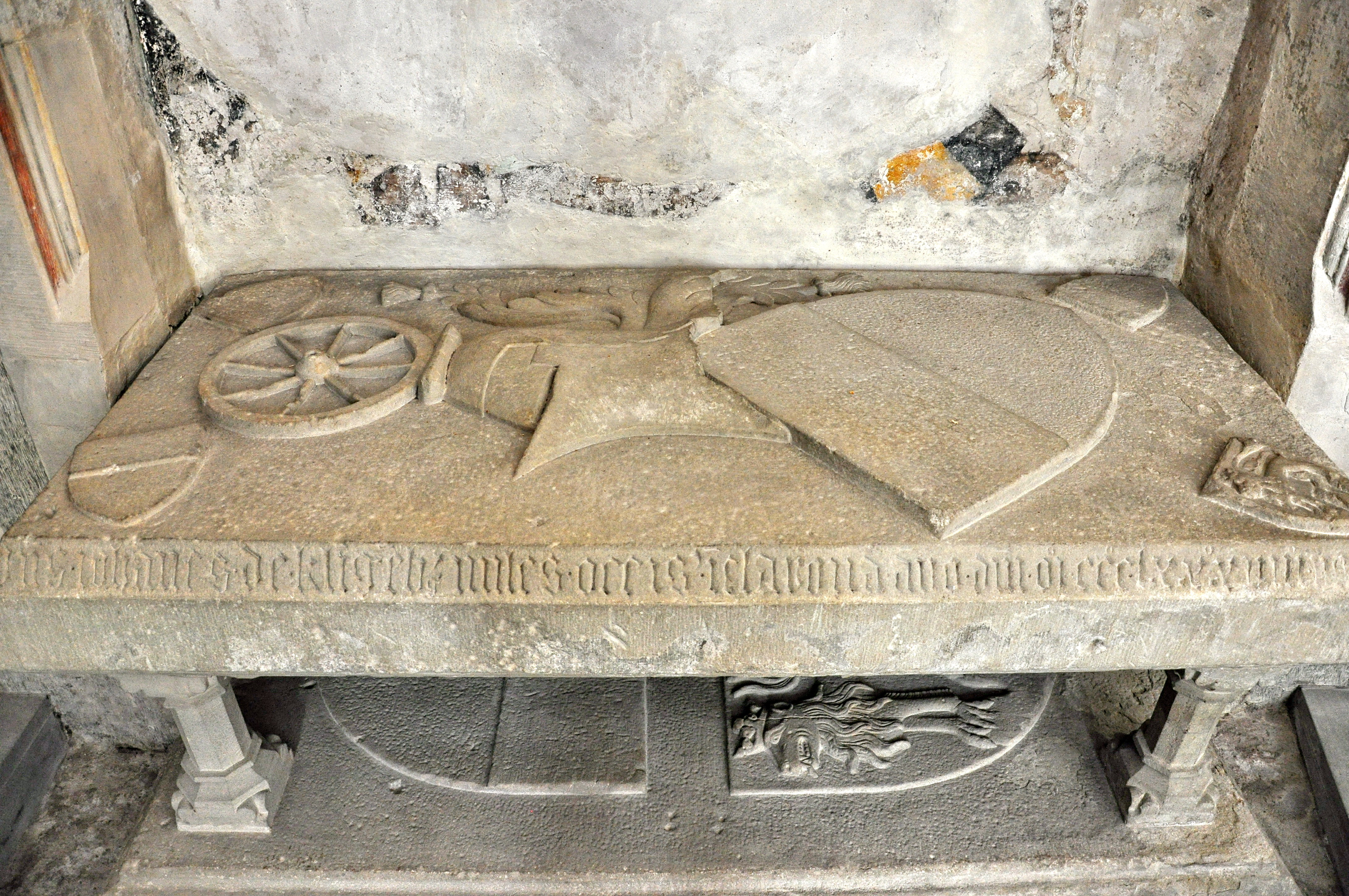 Rüti (Switzerland) : Former Rüti Abbey, as of today the Protestant church.